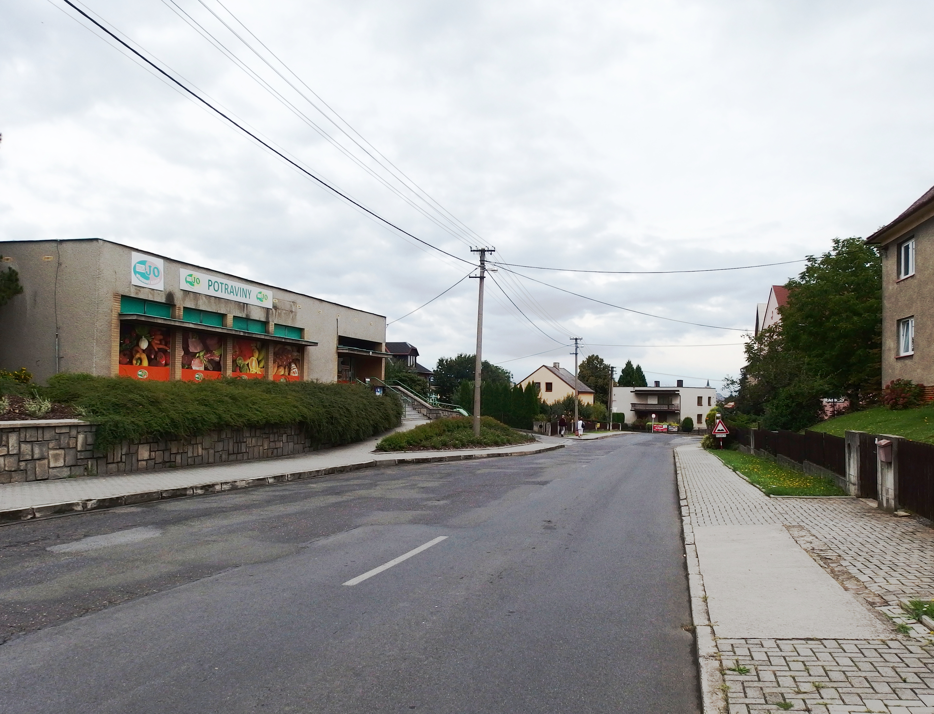 Darkovice, Opava District, Czech Republic.